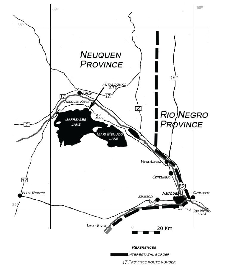 Figure 1 Map showing the locality (dark arrow) where Argentinadraco barrealensis n. gen, n. sp. was collected.